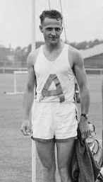 Arthur Lydiard (left), having finished second to Gordon Bromley in the New Zealand Marathon Championships, March 1949